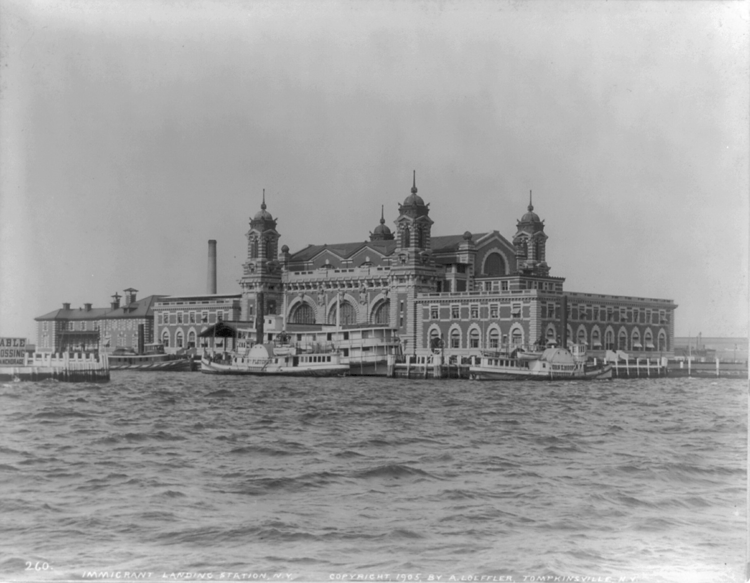 Ellis Island's Immigrant Landing Station, February 24, 1905.